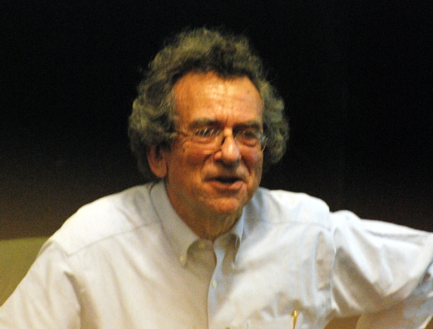 David Mermin during a talk at the AlbaNova University Center in Stockholm